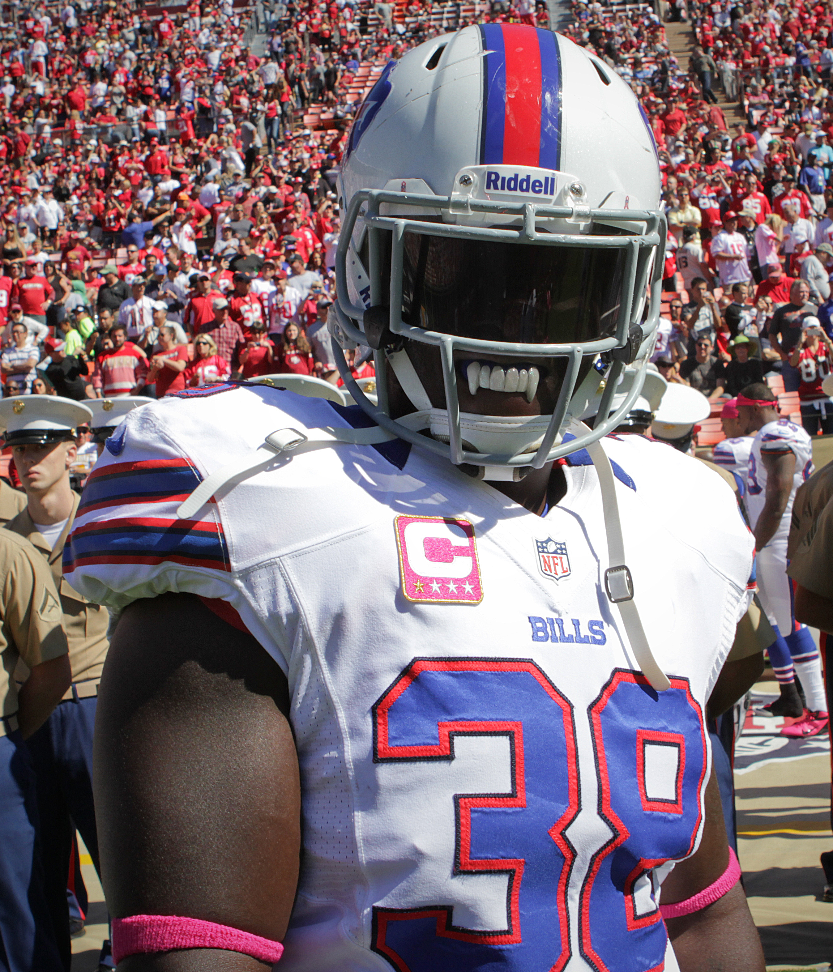 Buffalo Bills fullback Corey McIntyre shows his game face in front of Marines serving with the 13th Marine Expeditionary Unit just before the singing of the national anthem at Candlestick Park, Oct. 7, 2012. U.S. Marines, sailors, coast guardsmen and members of the Royal Canadian Navy marched on to the field to salute during the singing of the national anthem. The service members received a standing ovation as they left the field.